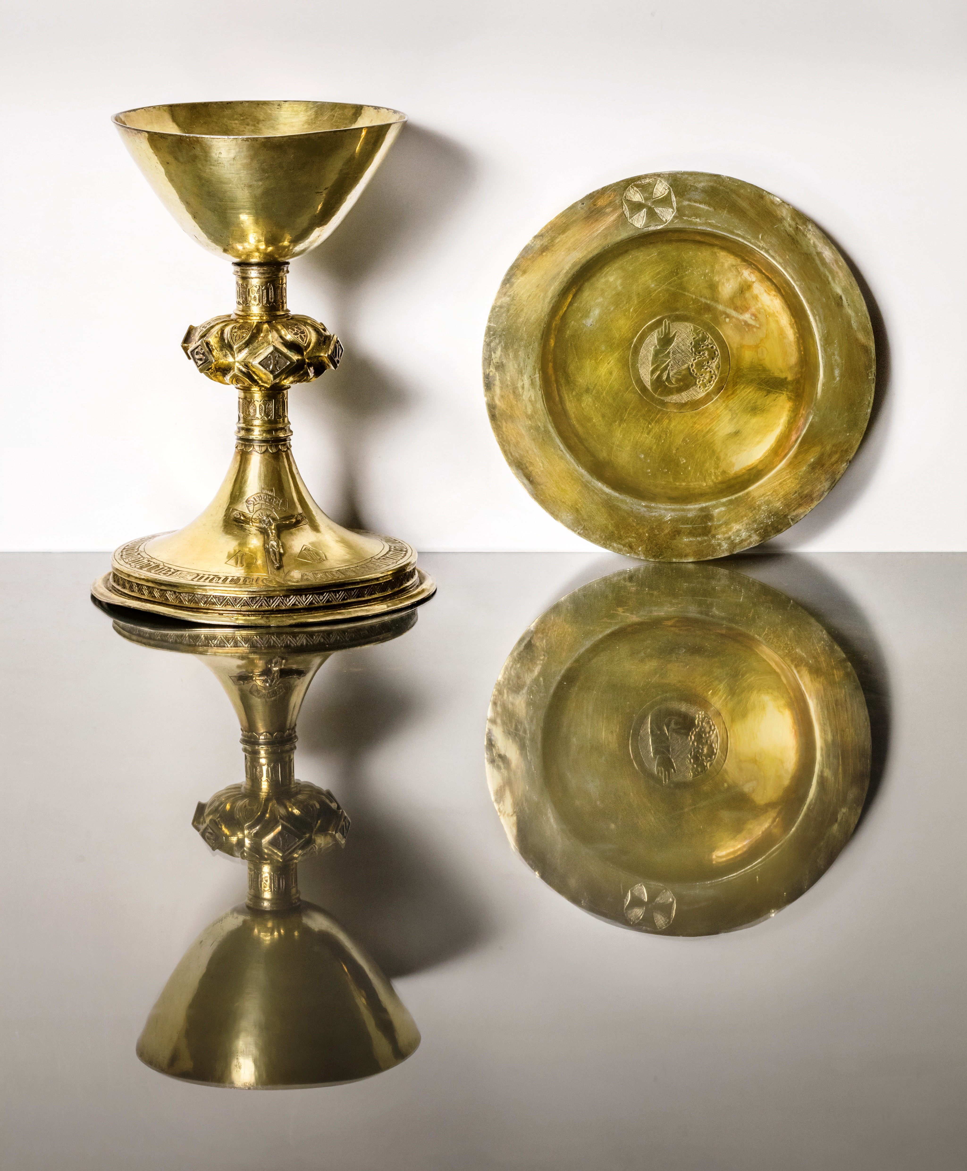 Chalice and paten from Seili leper hospital in Finland. The items were made in Turku between 1443-1480. They were originally used in St. George leper hospital in Turku. Turun museokeskus: TMM4678.